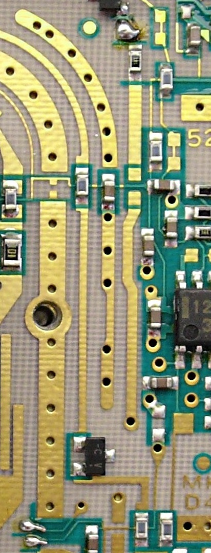 Example of via fence shielding a microstrip line